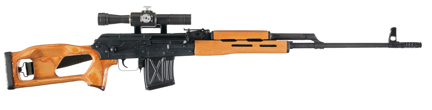 Romanian made psl